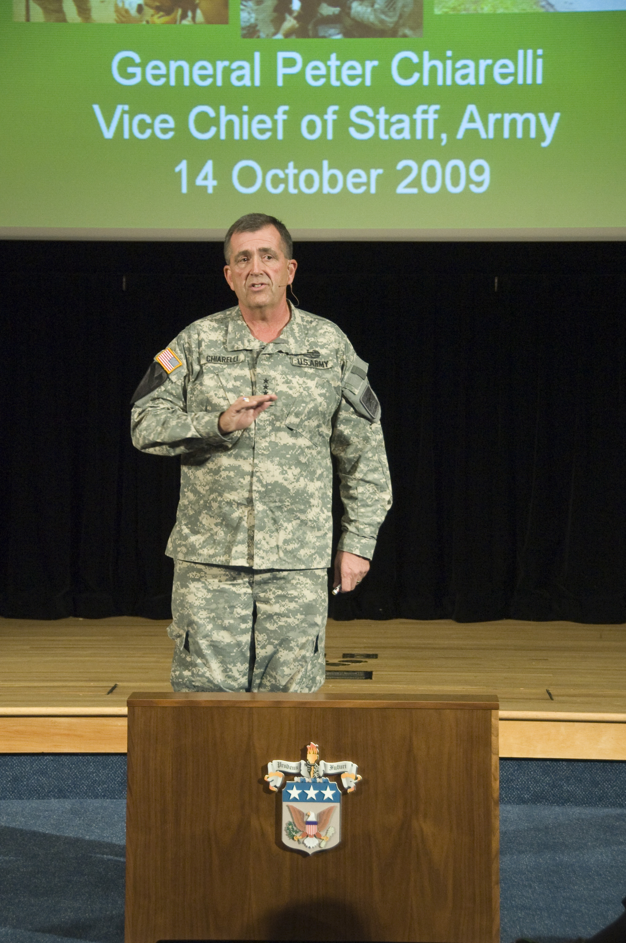 Gen. Peter Chiarelli, Vice Chief of Staff of the Army, spoke with Army War College students Oct. 14 as part of the annual Anton Myrer Army Leader Day, the capstone event for the college's Strategic Leadership course.